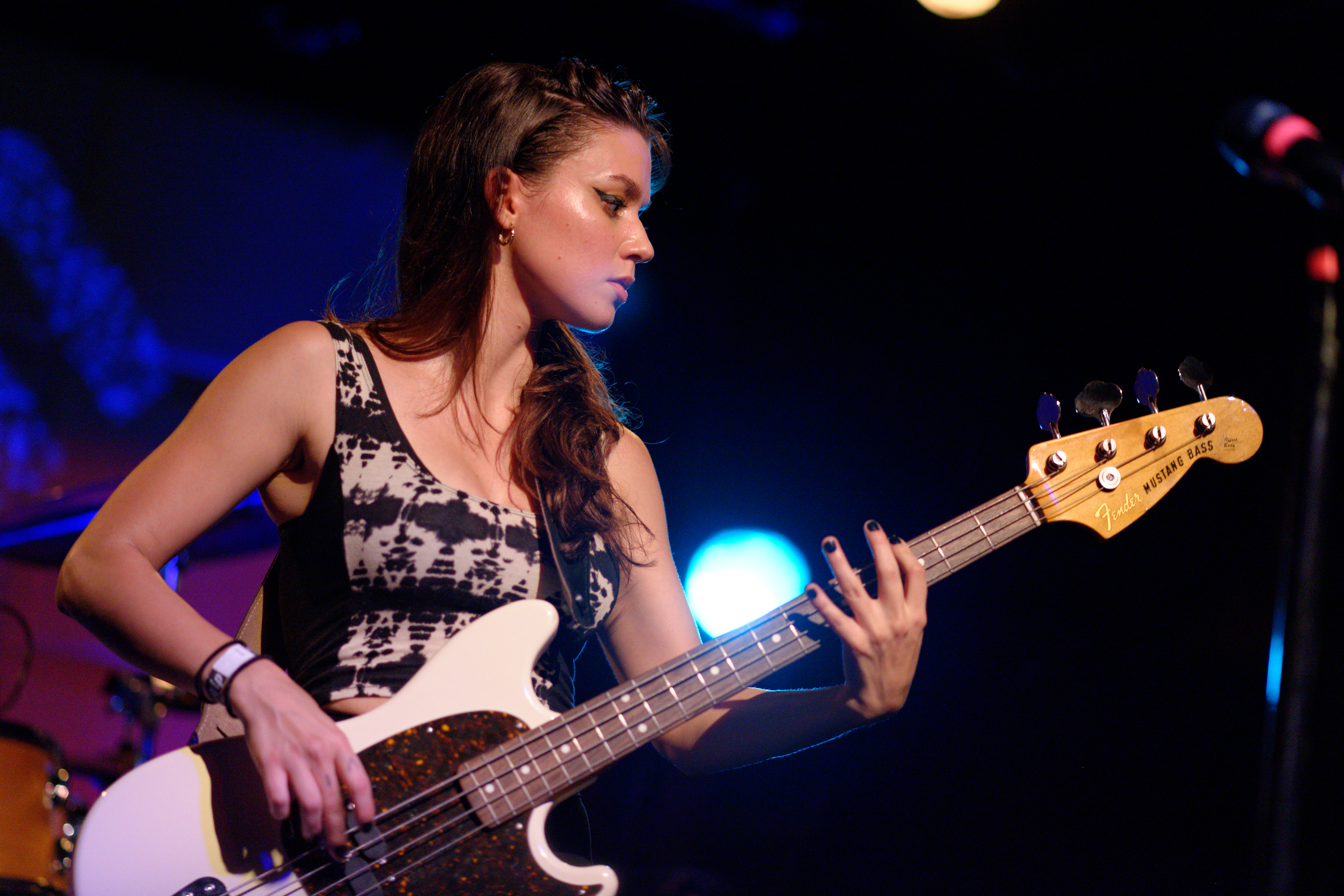 Meg Myers performing live at The Echo in Los Angeles California on Thursday September 18th, 2014.